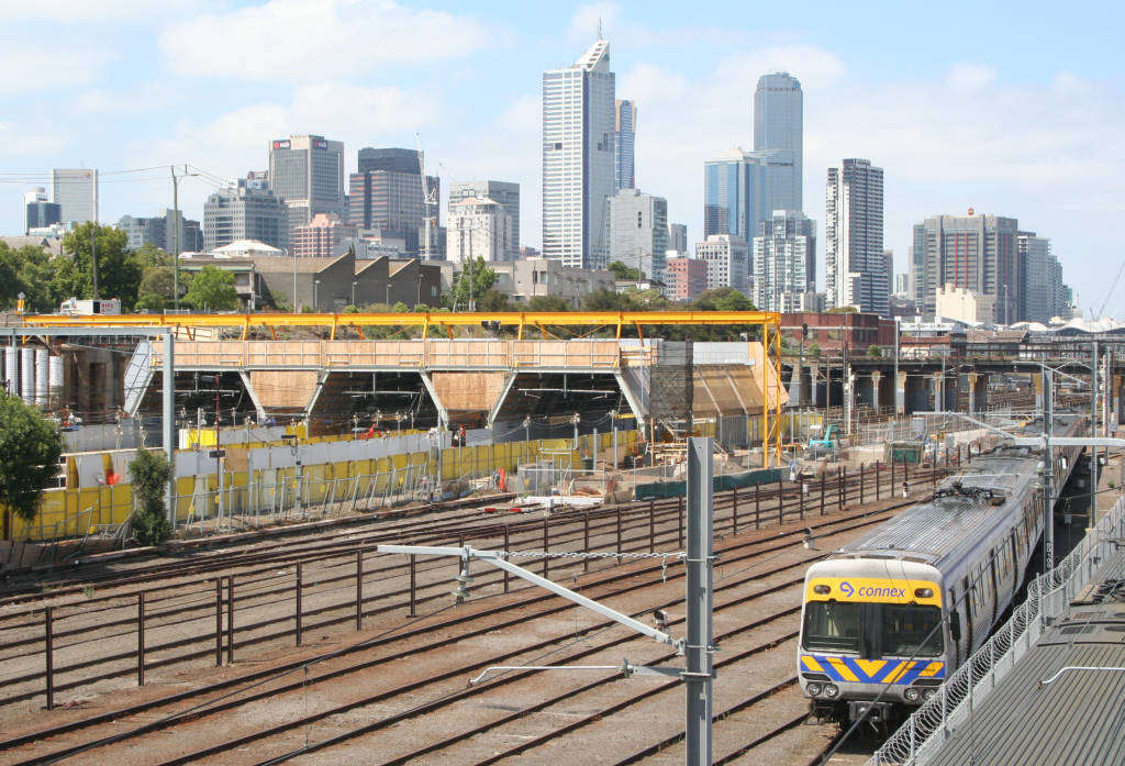 Redevelopment work at North Melbourne railway station.